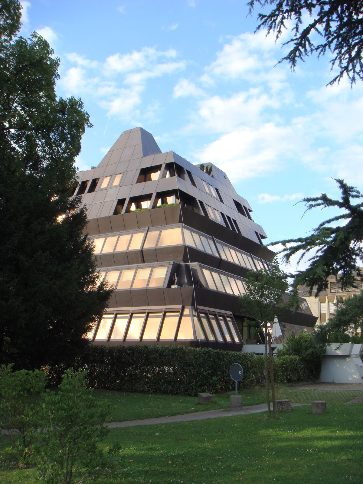 A hospital with the appearance of a spaceship in Zurich